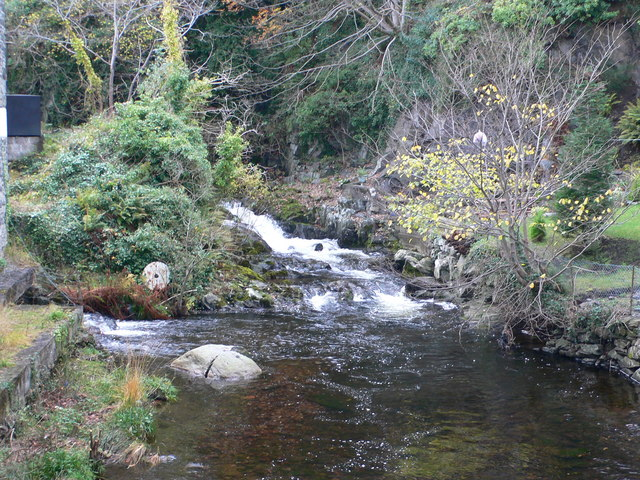 Afon Crafnant The river which has its source in Lake Crafnant, joins the river Conwy. It passes through the village of Trefriw.